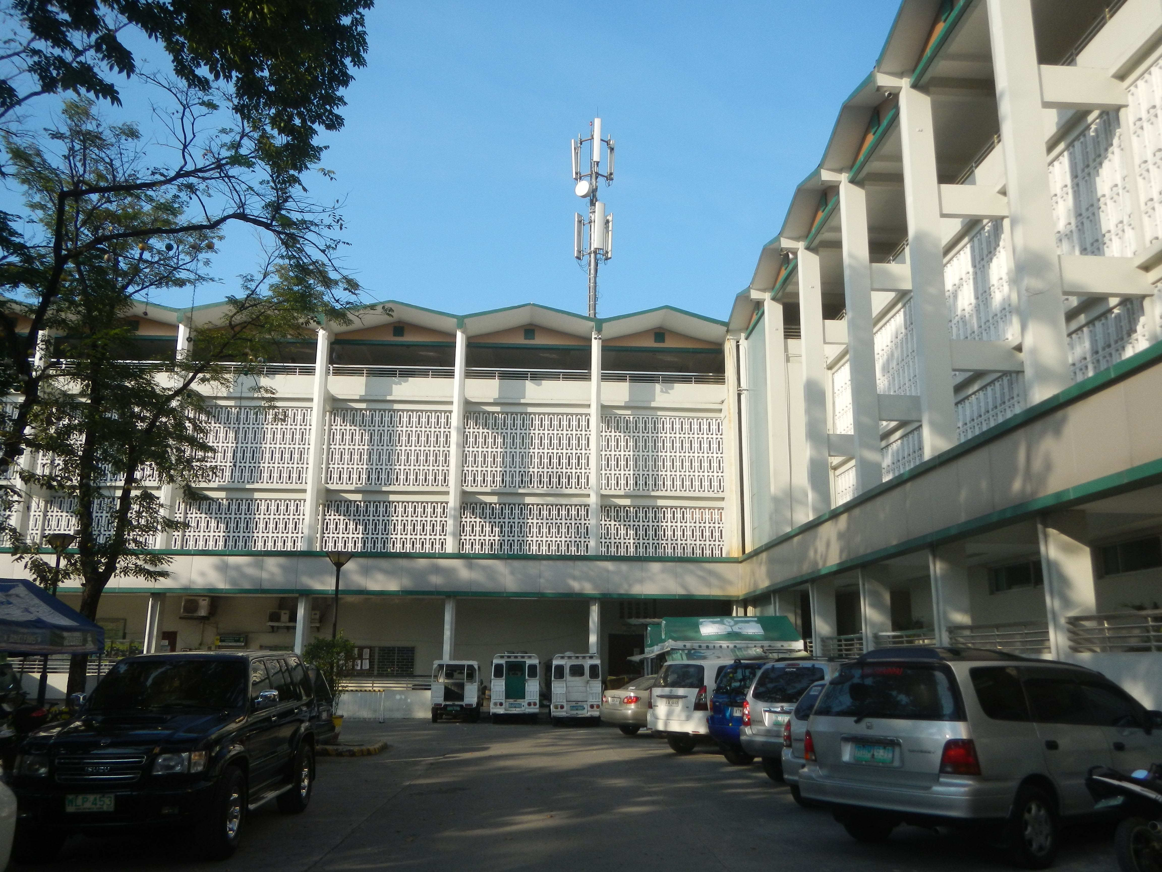 Parañaque City Hall San Antonio Valley 14°27'53"N 121°1'12"E Sucat Road 14°27'58"N 121°1'0"E Dr. A. Santos Avenue; Legislative districts of Parañaque 1st District, Districts and barangays, Barangays San Antonio 14°27'56"N 121°1'52"E from San Isidro, Parañaque San Isidro 14°28'1"N 121°0'40"E San Dionisio 14°29'2"N 120°59'33"E La Huerta 14°29'50"N 120°59'43"E beside Santo Niño 14°30'14"N 121°0'11"E Baclaran, Parañaque City (Note: Judge Florentino Floro, the owner, to repeat, Donor Florentino Floro of all these photos hereby donate gratuitously, freely and unconditionally Judge Floro all these photos to and for Wikimedia Commons, exclusively, for public use of the public domain, and again without any condition whatsoever).